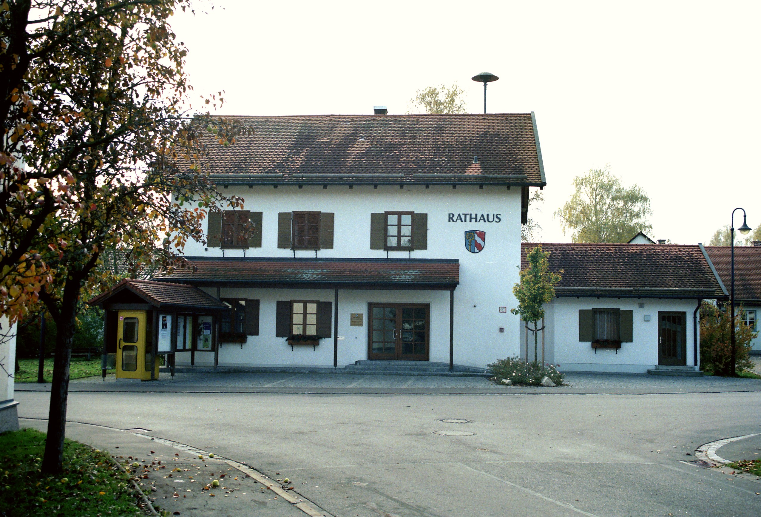 Eching am Ammersee, the town hall